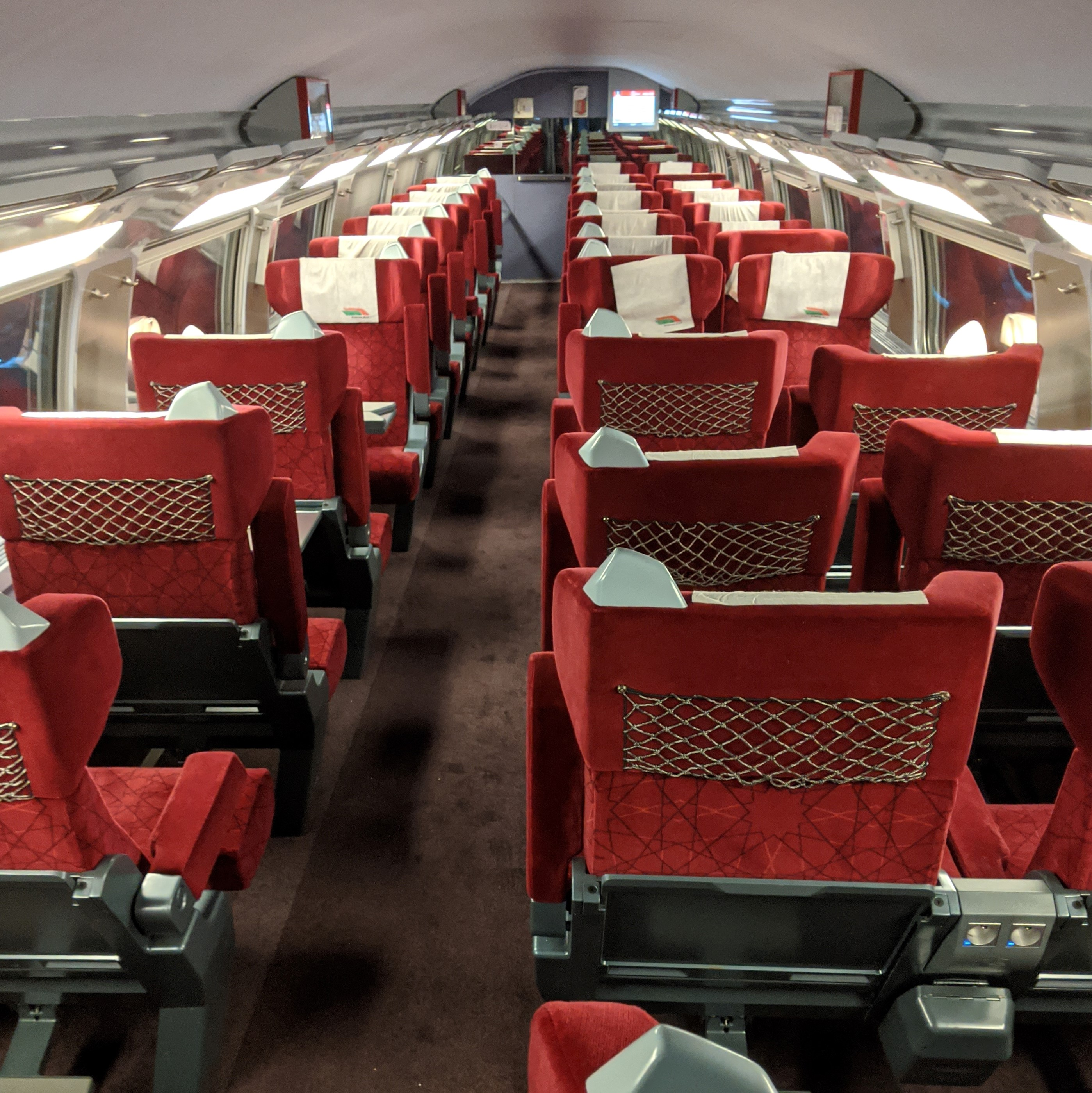 First class wagon, al-Boraq